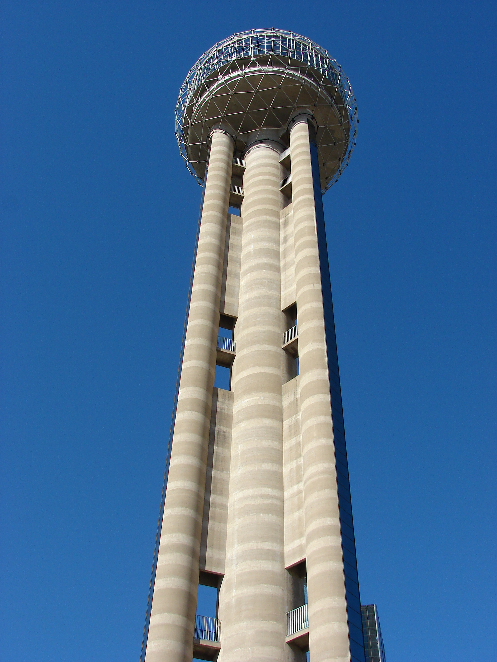 Reunion Tower in Dallas, Texas.